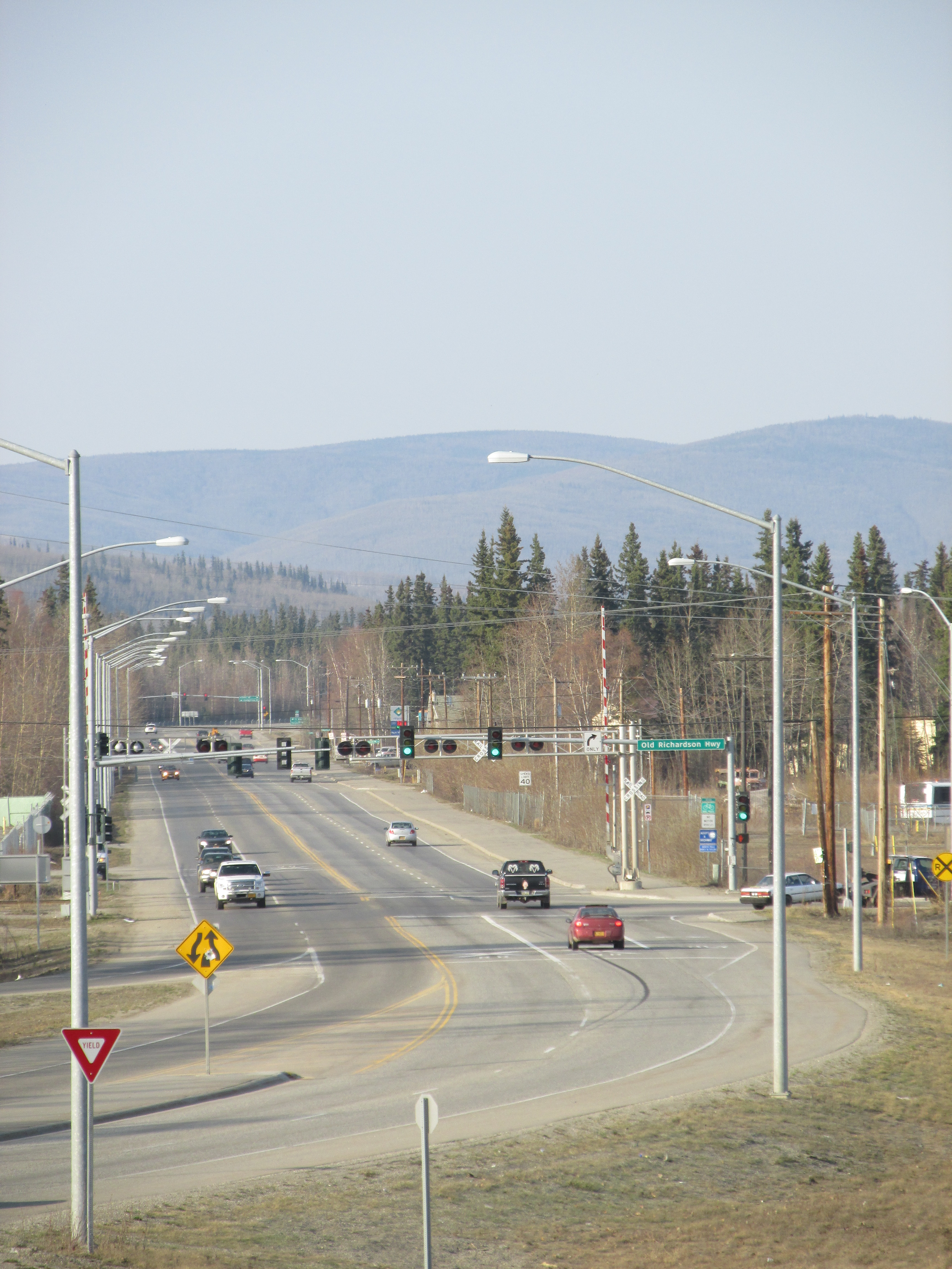 The western terminus of Badger Road as viewed from atop the overpass on the Richardson Highway. Portions of the area shown are in the city limits of Fairbanks. However, most of this area, including most of the area accessible from the road, form the western reaches of the Badger CDP.